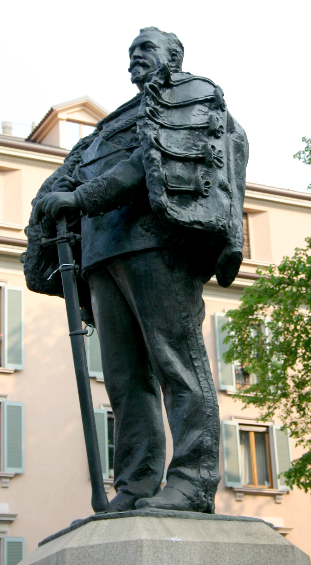 Enrico Cassi (1863-1913), Monument to garibaldine general Giuseppe Dezza (1912), facing an entrance of the "Giardini pubblici di Porta Venezia" gardens, in Milan, Italy. Picture by Giovanni Dall'Orto, April 22 2007. Il monumento / The monument (1912) Il monumento / The monument (1912) Maddaloni. Rilievo / Relief. Palermo. Rilievo / Relief. Retro / Back view.